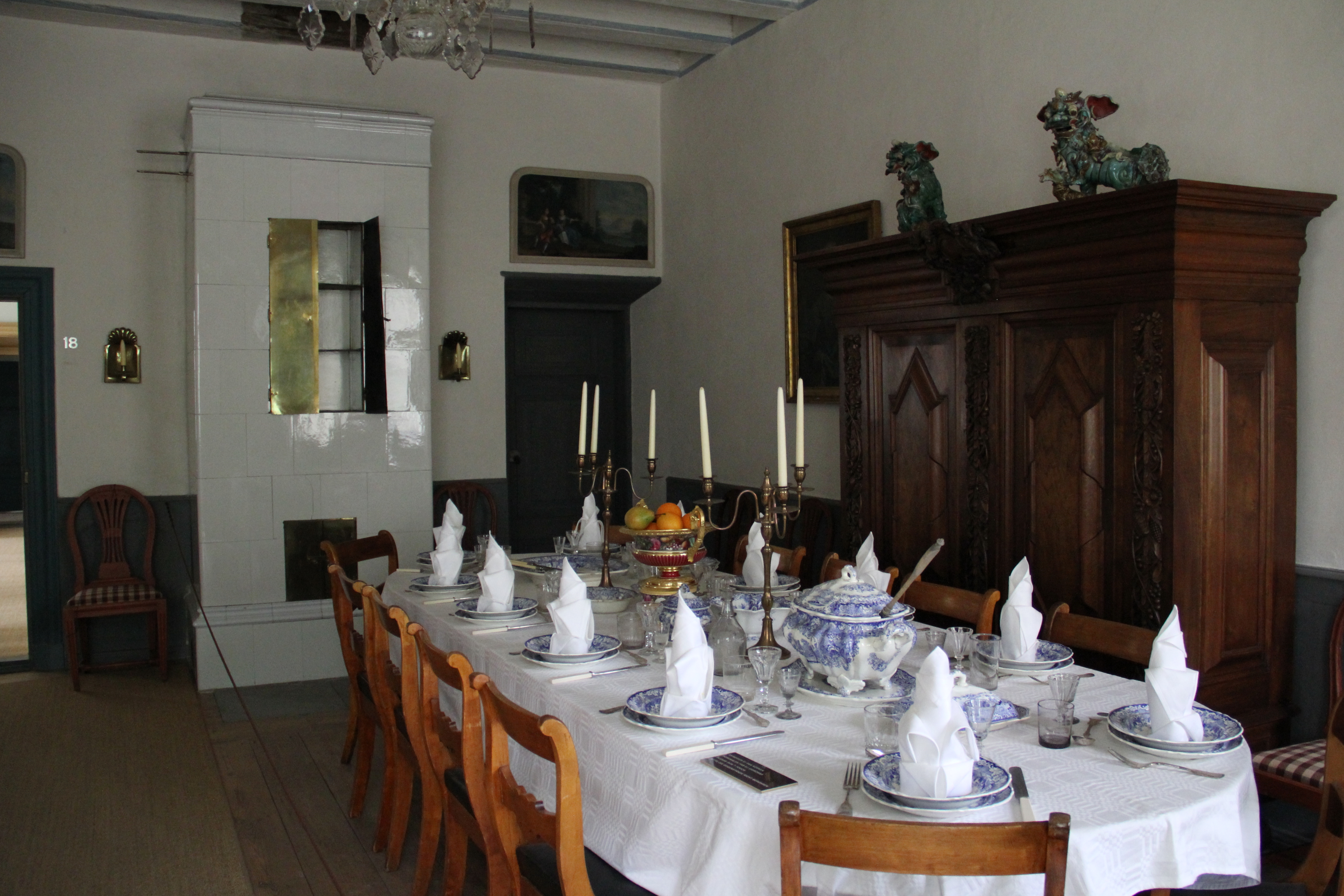 Louhisaari manor, Askainen, Masku, Finland. - Dining room.